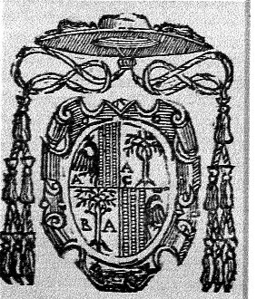 Coat of arms of Ennio Filonardi